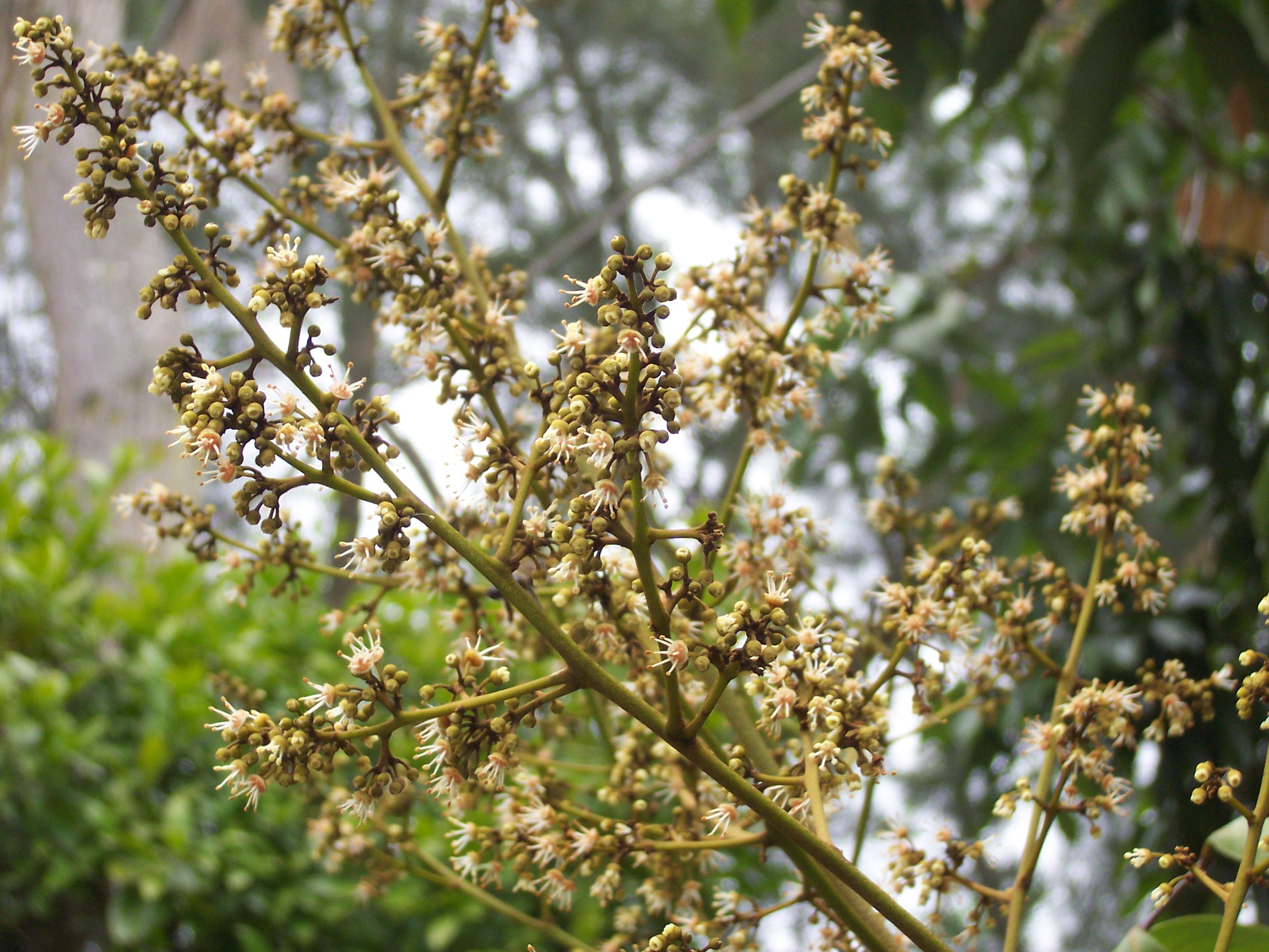 flowers of Litchi chinensis (picture taken on Réunion island)